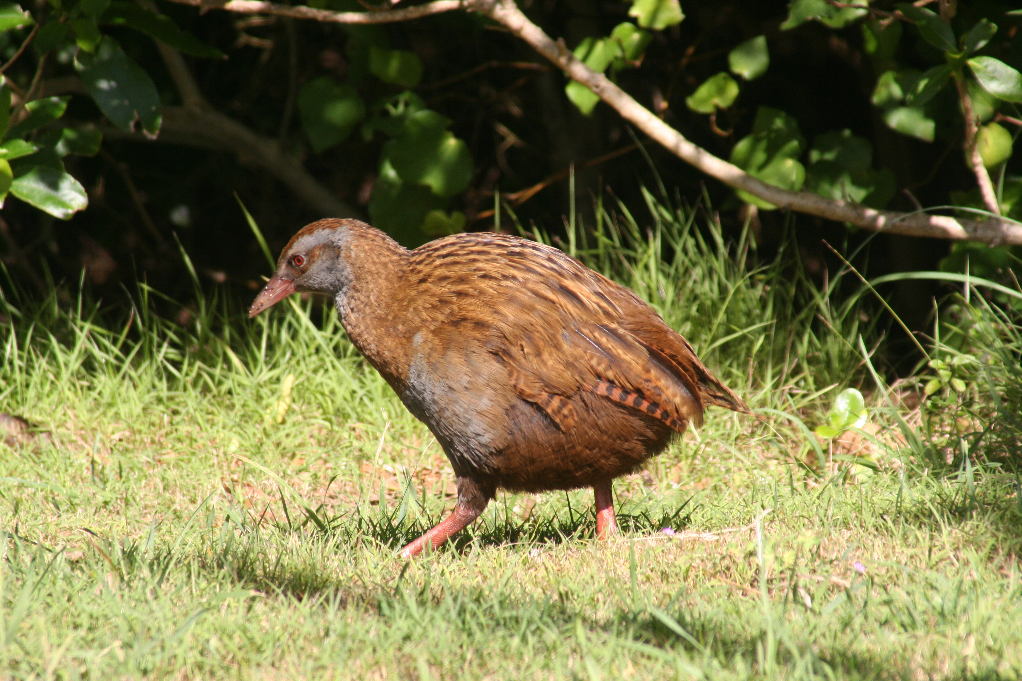 A large flightless rail. Kapiti Island.